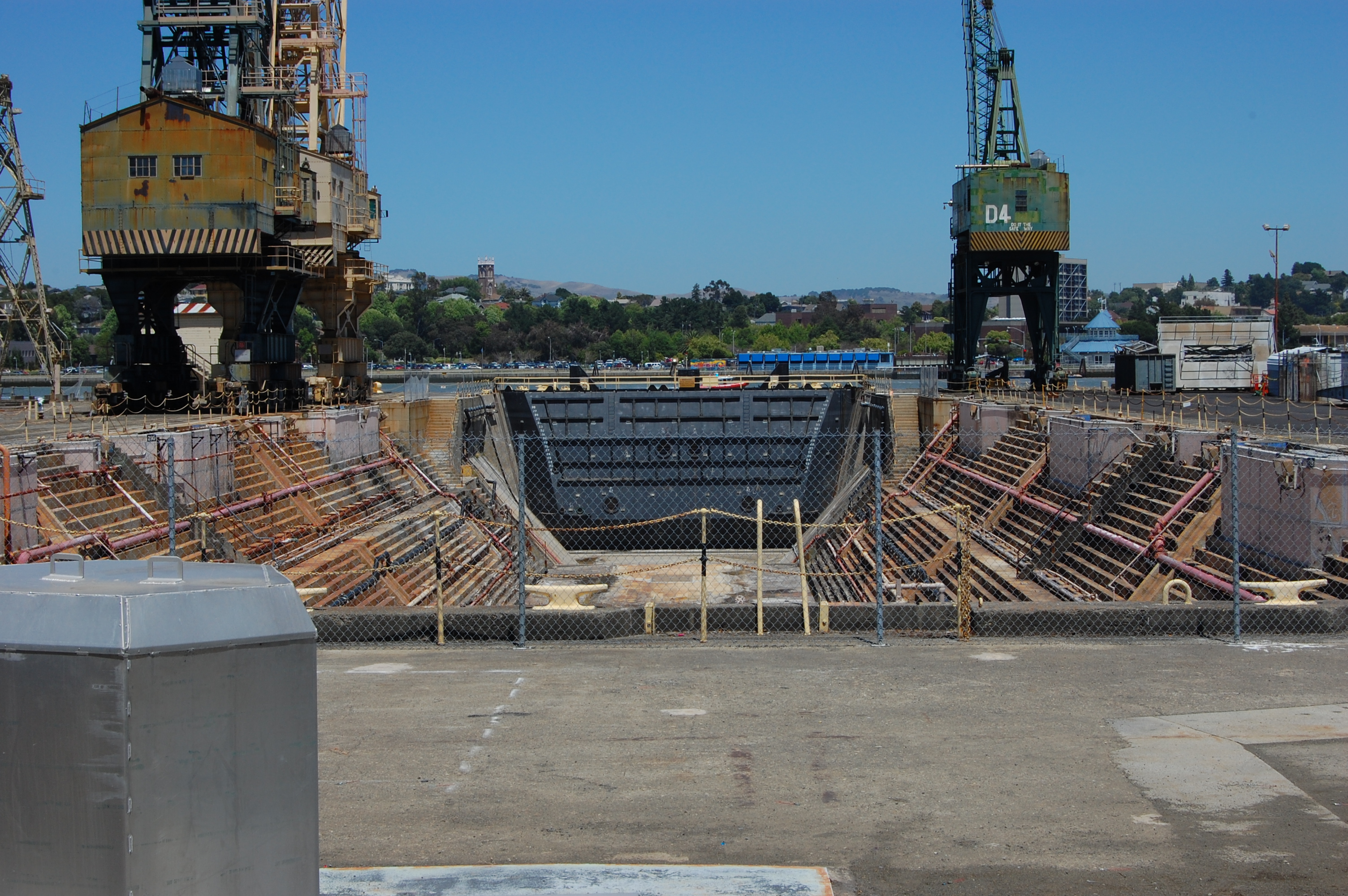 Dry dock. Mare Island Naval Shipyard. Vallejo, California, USA